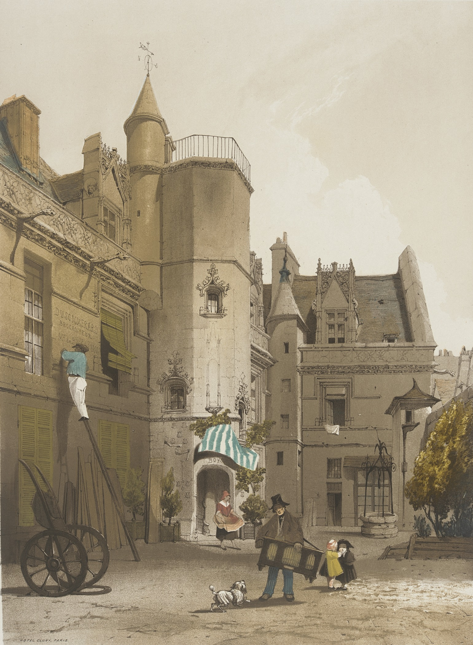 England, 1839 Portfolio: Picturesque Architecture in Paris/Ghent/Antwerp/Rouen/etc. Prints; lithographs Color lithograph Purchased with funds in honor of Ebria Feinblatt, provided by Mr. and Mrs. Marvin Biers, William Sabersky, Mr. and Mrs. Dan Schneiderman, and Mr. and Mrs. Lewis Smolen (M.84.160.1) Prints and Drawings